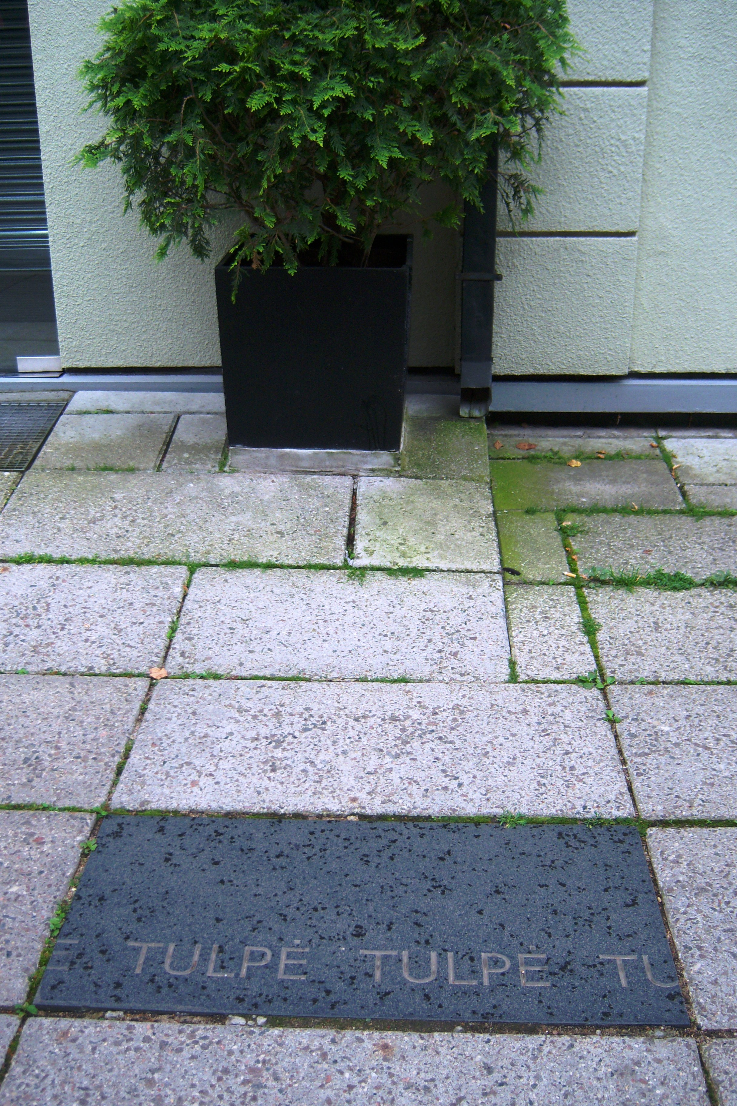 Laisvės alėja 45, sidewalk plaque, Kaunas, Lithuania